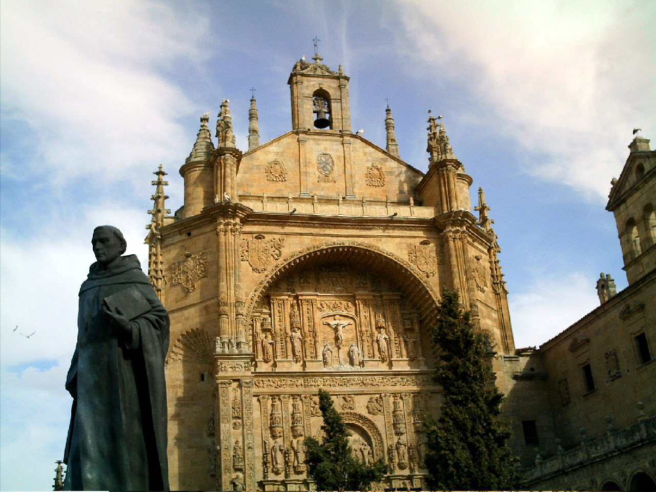 Convent of San Esteban